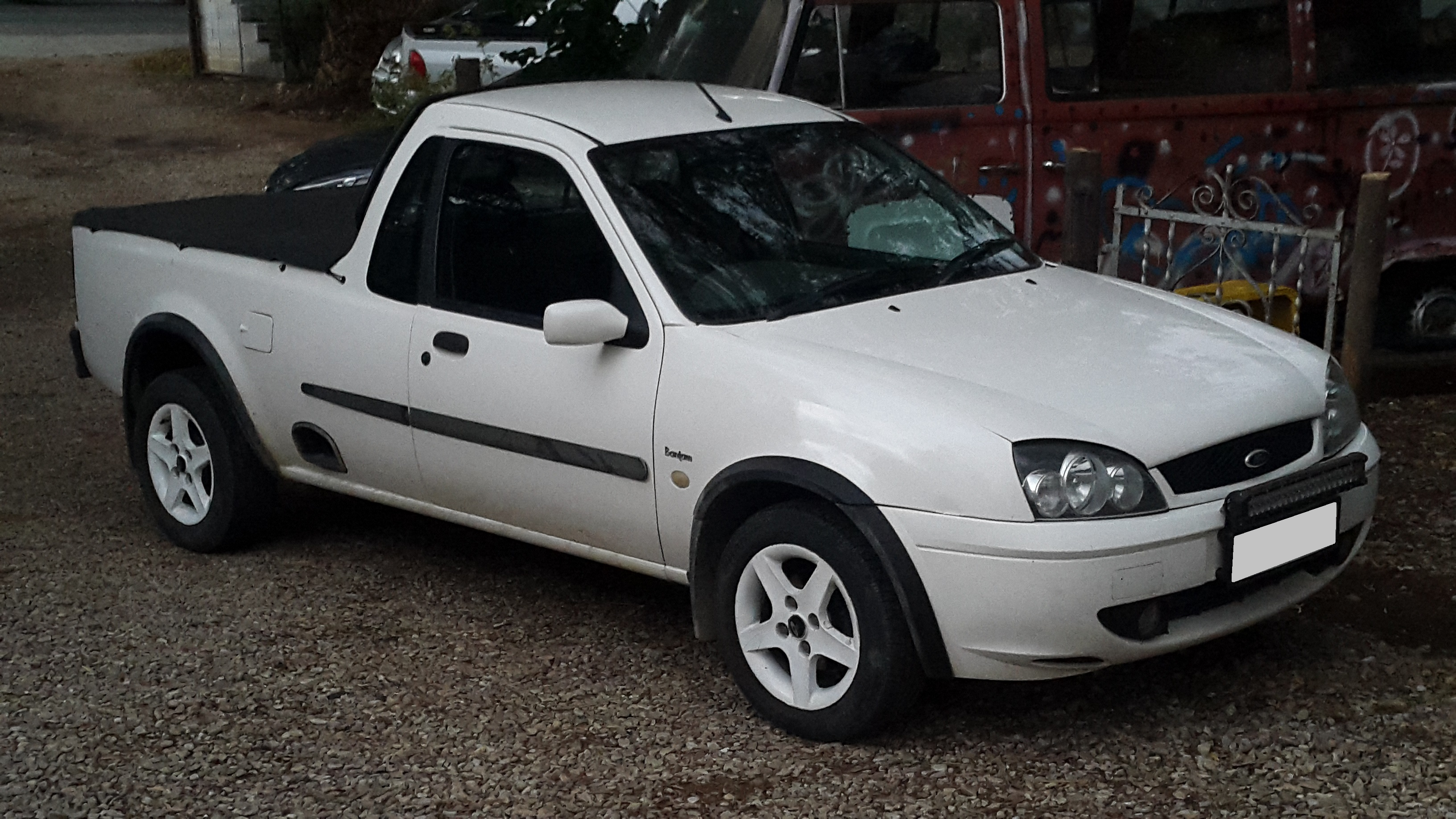 A Ford Fiesta Mk.V-derived Ford Bantam, first facelift.